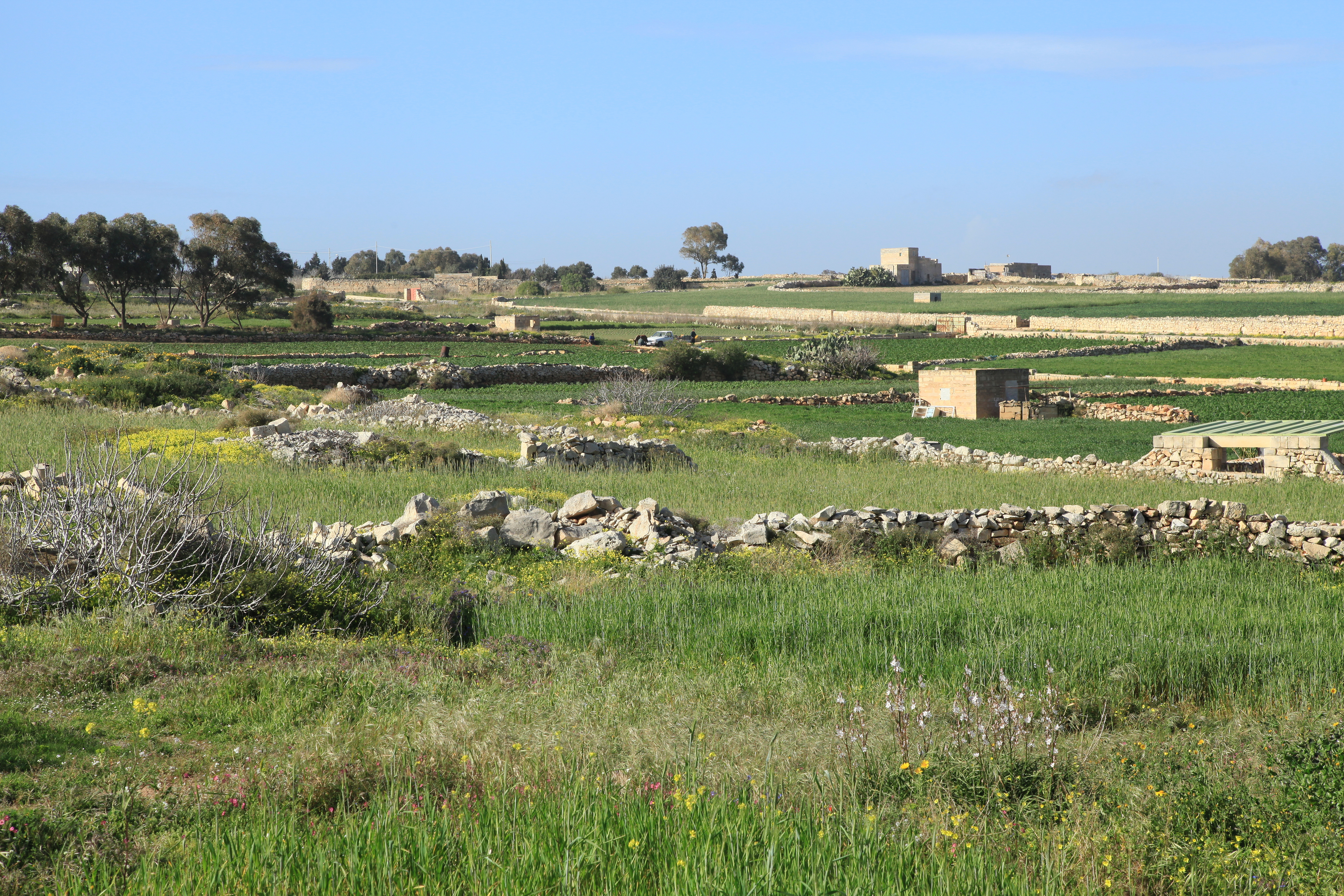 Triq ta' Ħaġar Qim in Qrendi